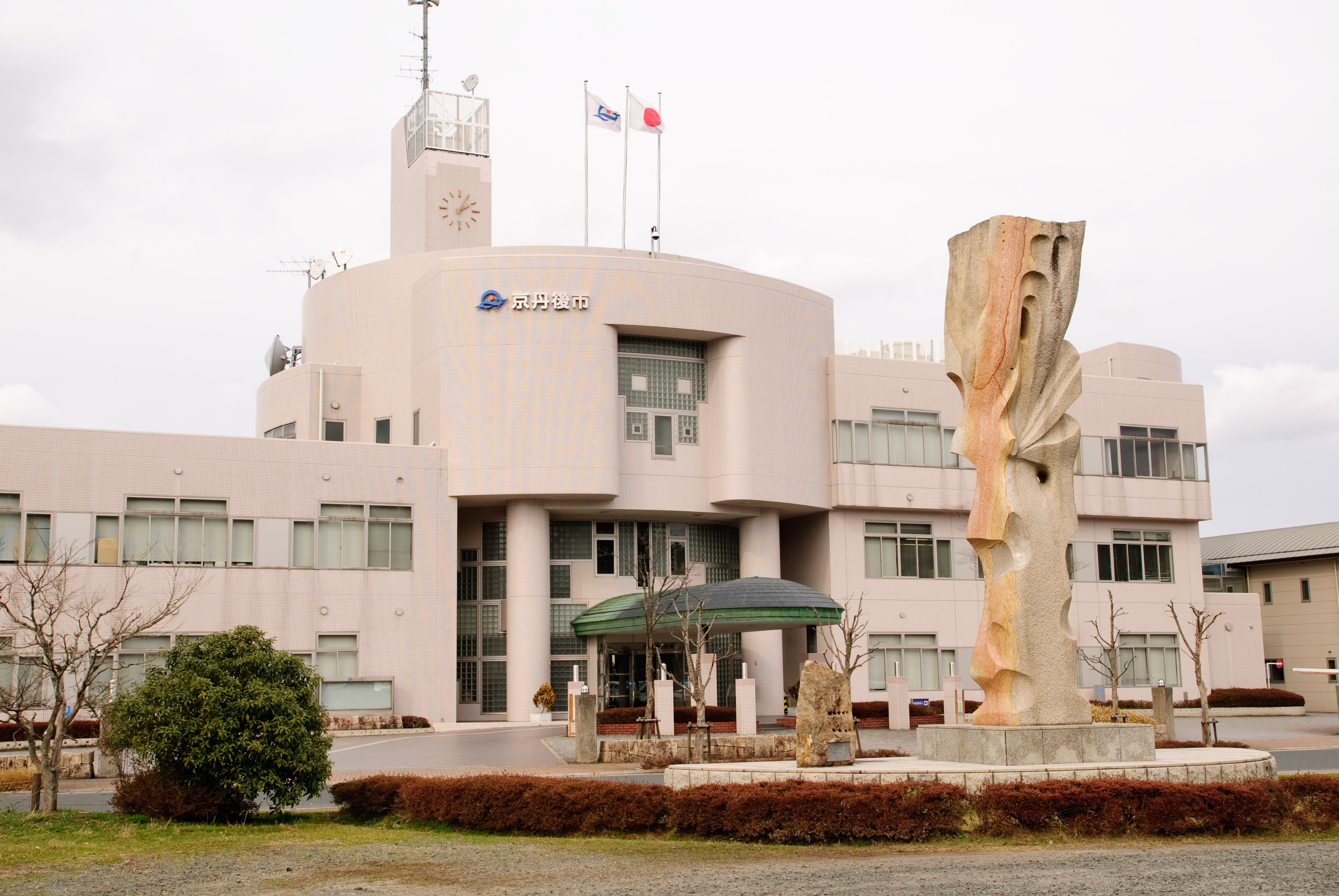 Kyotango City hall